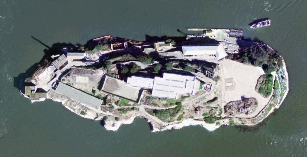 Satellite Image of Alcatraz